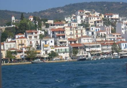 This is a picture of typical buildings in Skiathos and the ocean!